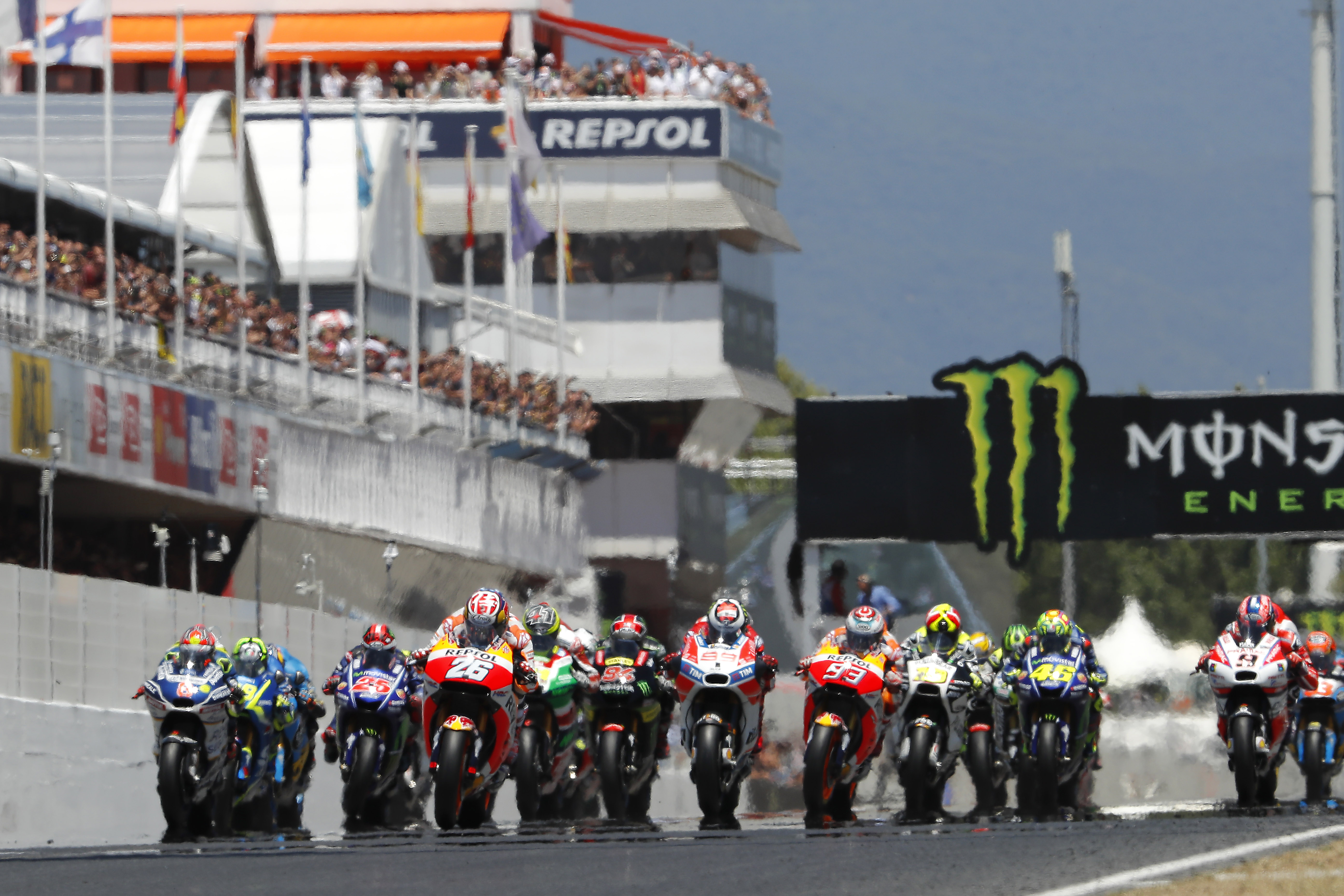 Dani Pedrosa, leading the pack at the opening lap of the 2017 Catalan Grand Prix.